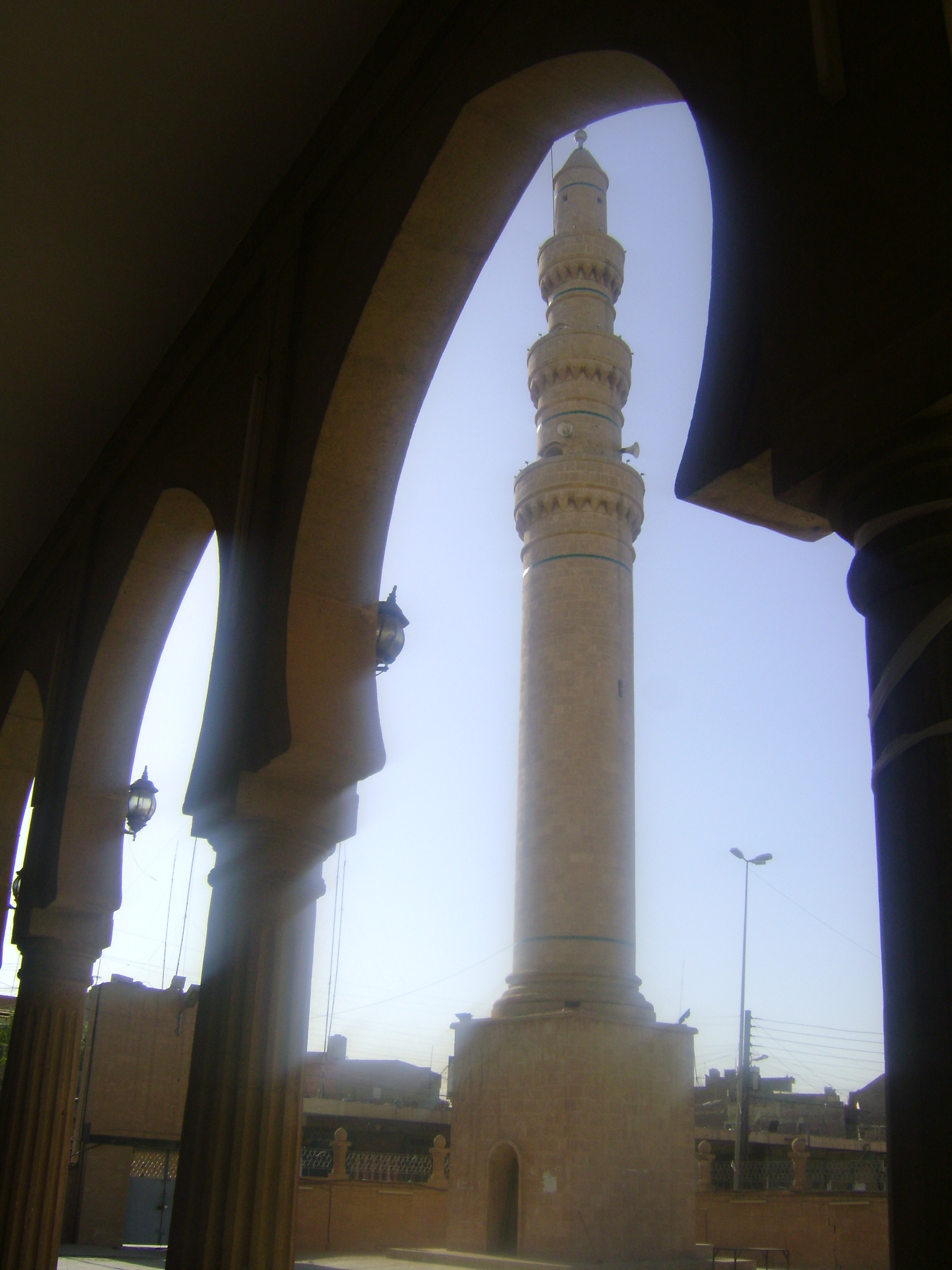 Mosque of the Prophet Shit (Mosul), which was blown by (ISIS) terrorists in 2014